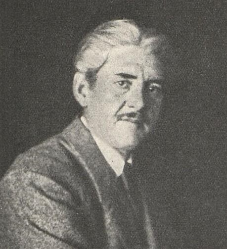 Bohumil Vavroušek (1875-1939). Czech photographer and teacher